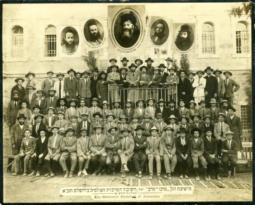 Picture of Rav Kook and his Yeshiva Faculty and Students